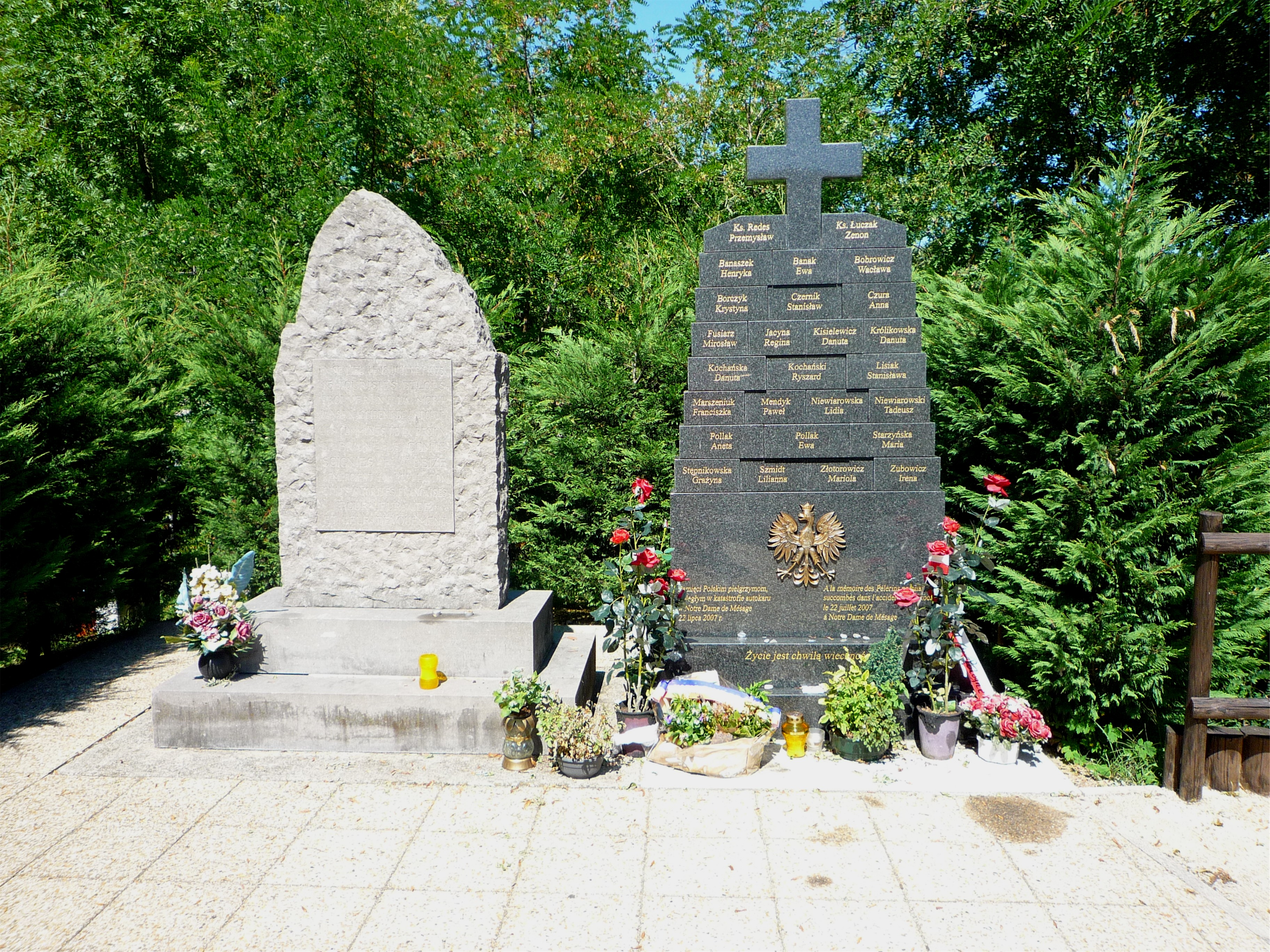 Monuments commemorating two bus accident in Rampe de Laffrey (Isère near Grenoble). Left :1973, 43 people killed. Right : 2007, 26 people killed